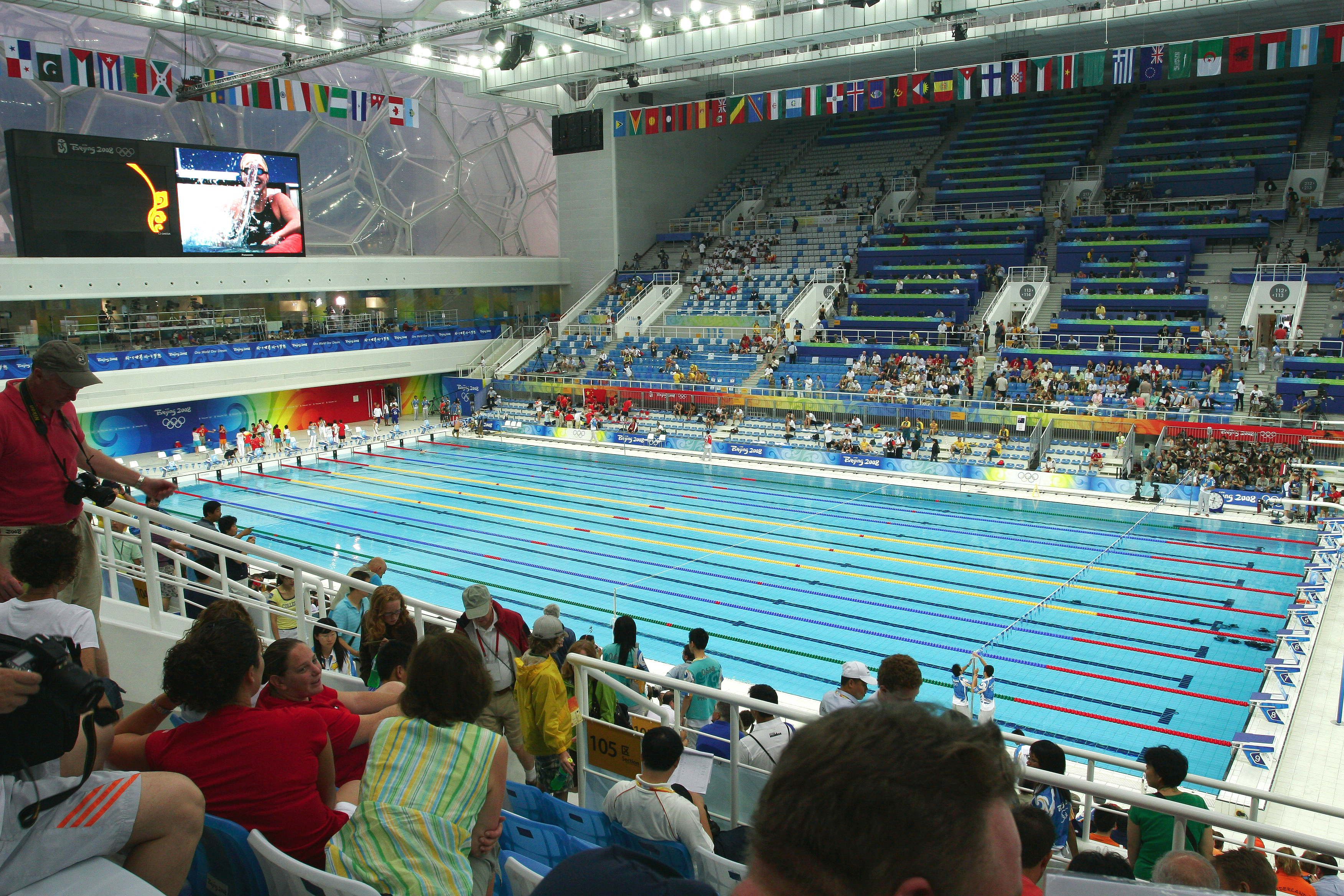 We attended the swimming competition the day Michael Phelps won his eighth gold medal.